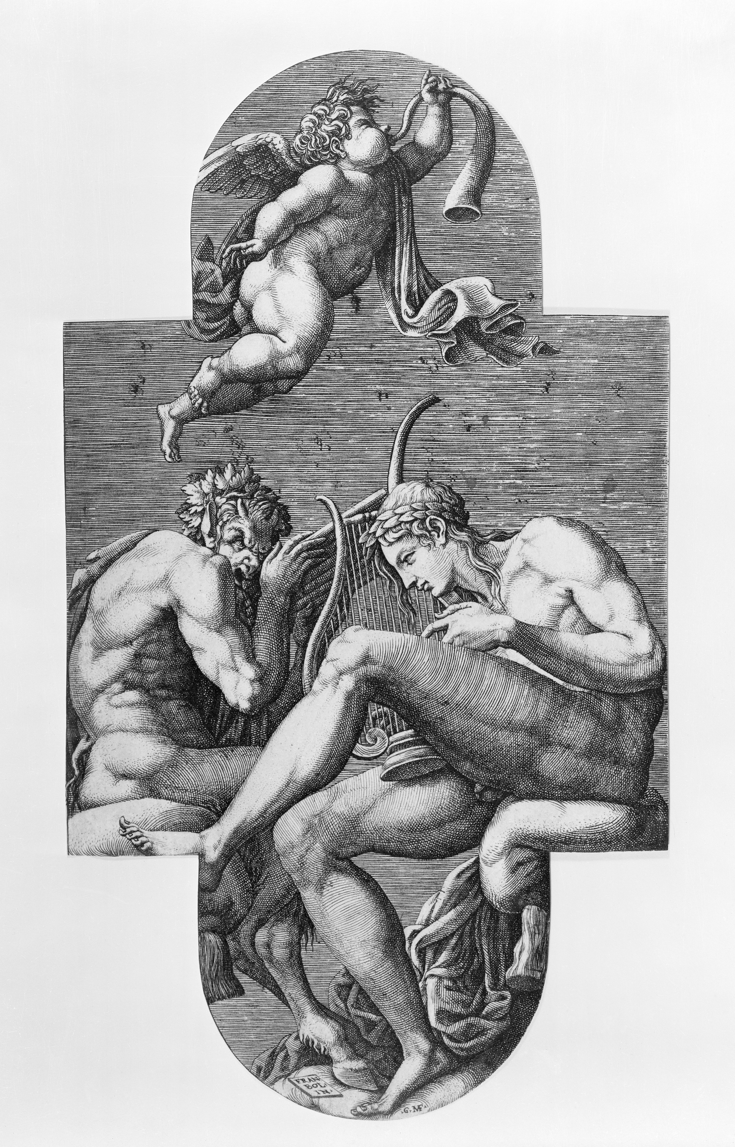 Print; Prints